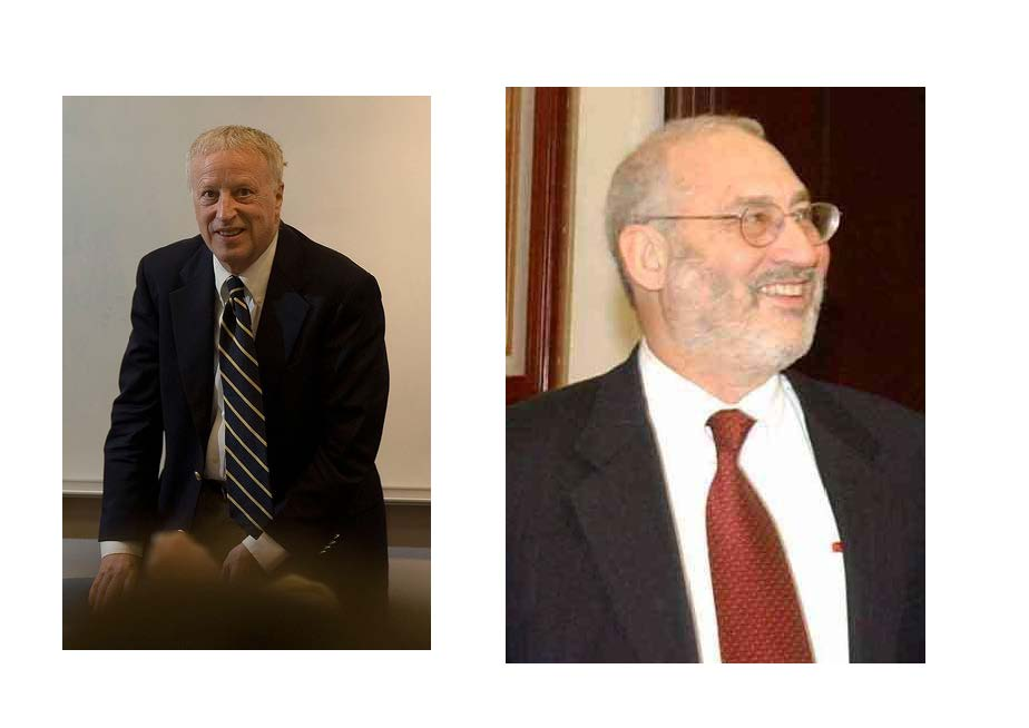 Combination of two pictures from wiki commons.